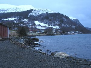 Vanylven (Sørbrandal), looking towards Åram